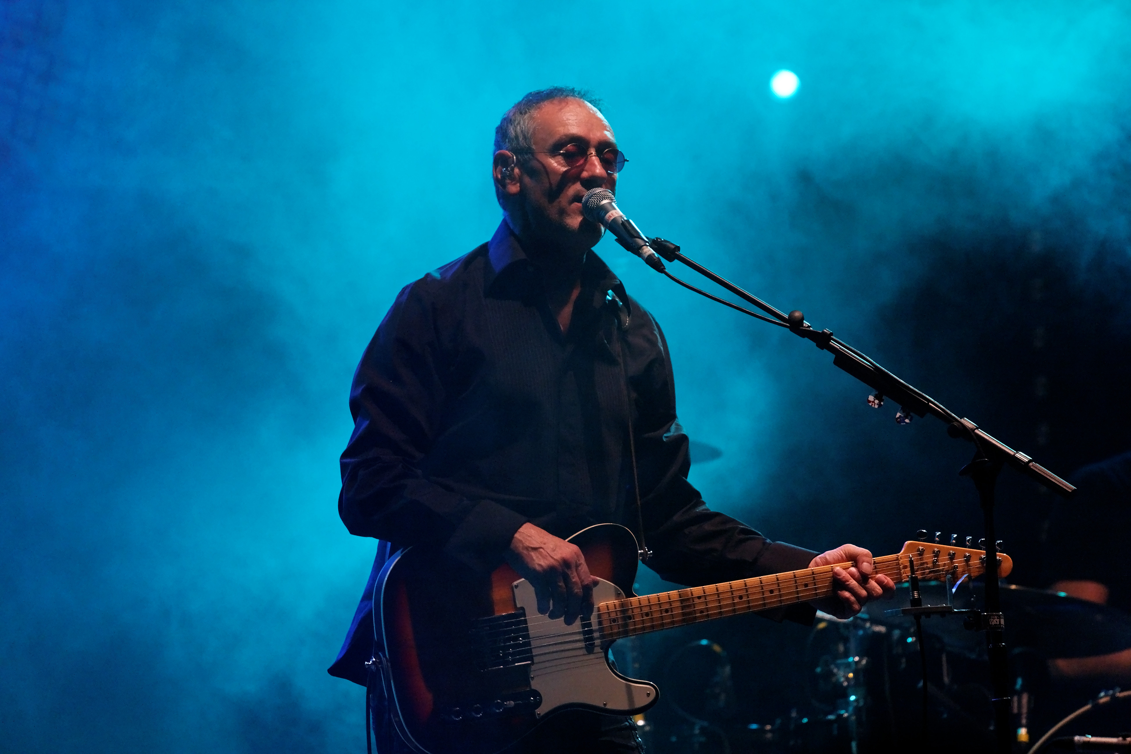 Micheal Jone's picture taken at "St Bonnet de Mure" during a local festival.